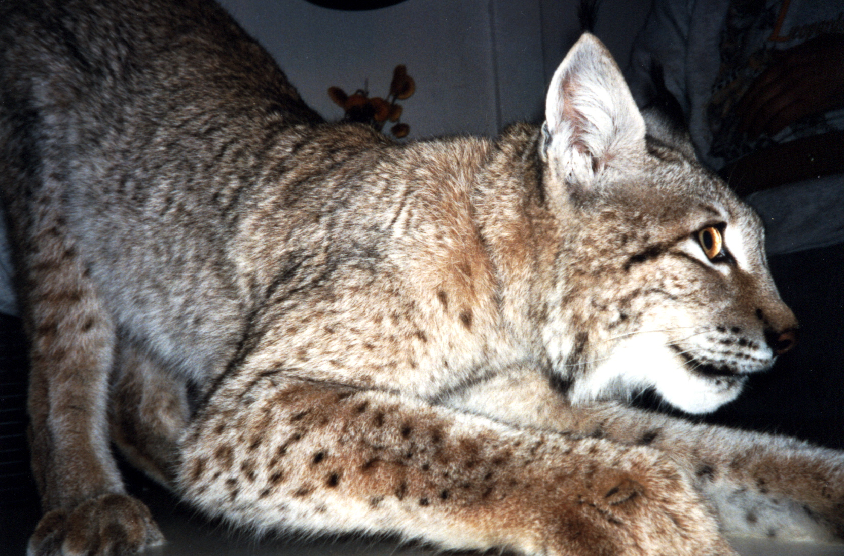 Siberian Lynx acting just like a big kitty with her WCN friends.big kitty